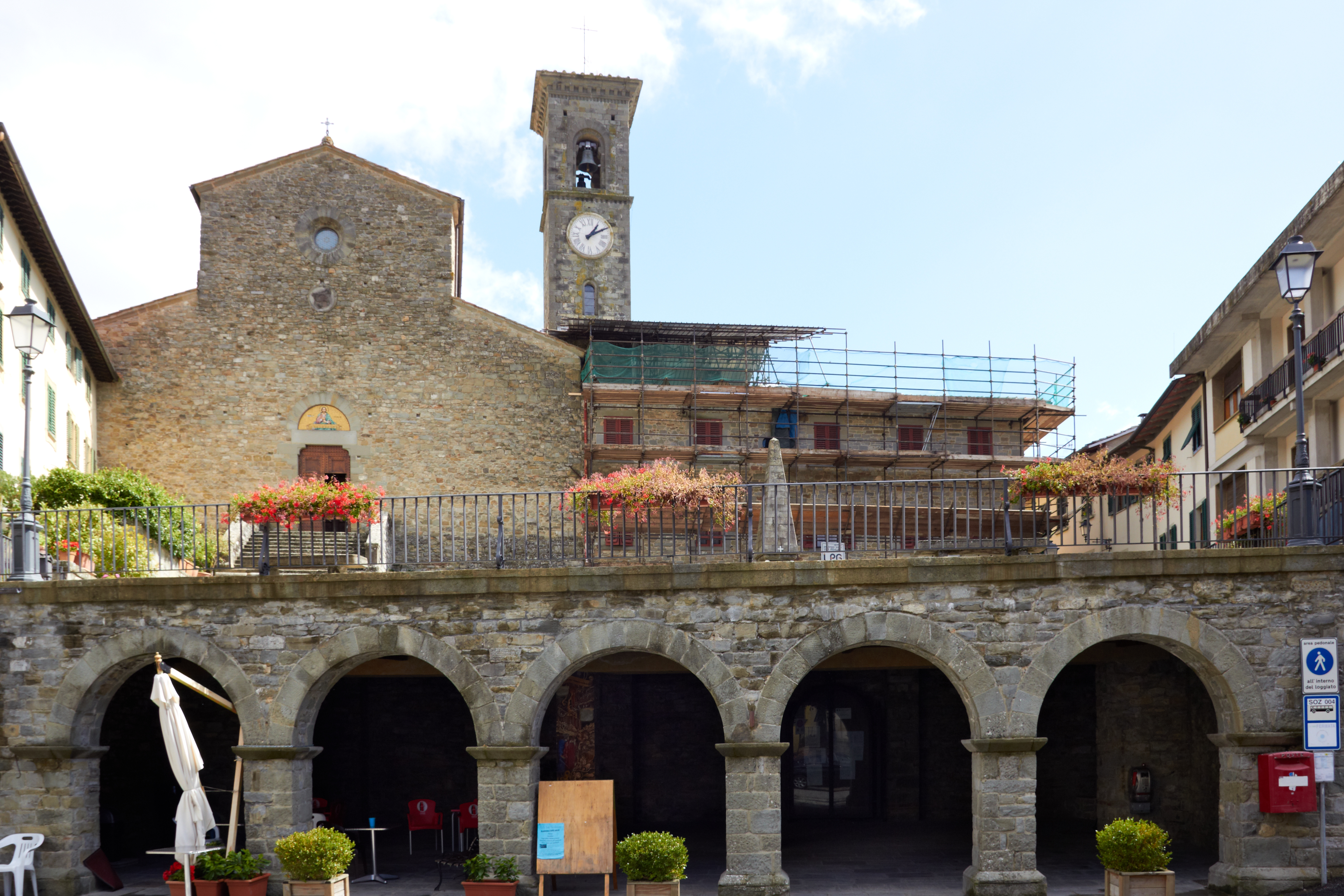 San Godenzo, Italy